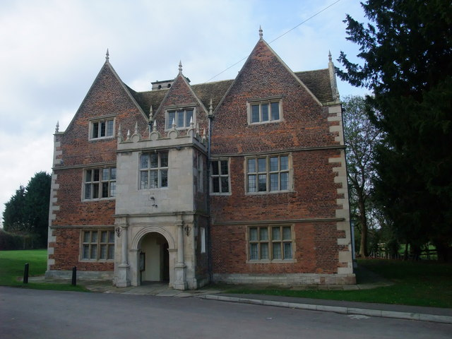 The Red Hall, Bourne Built by Gilbert Fisher about 1605. Now owned by, and headquarters of Bourne United Charities